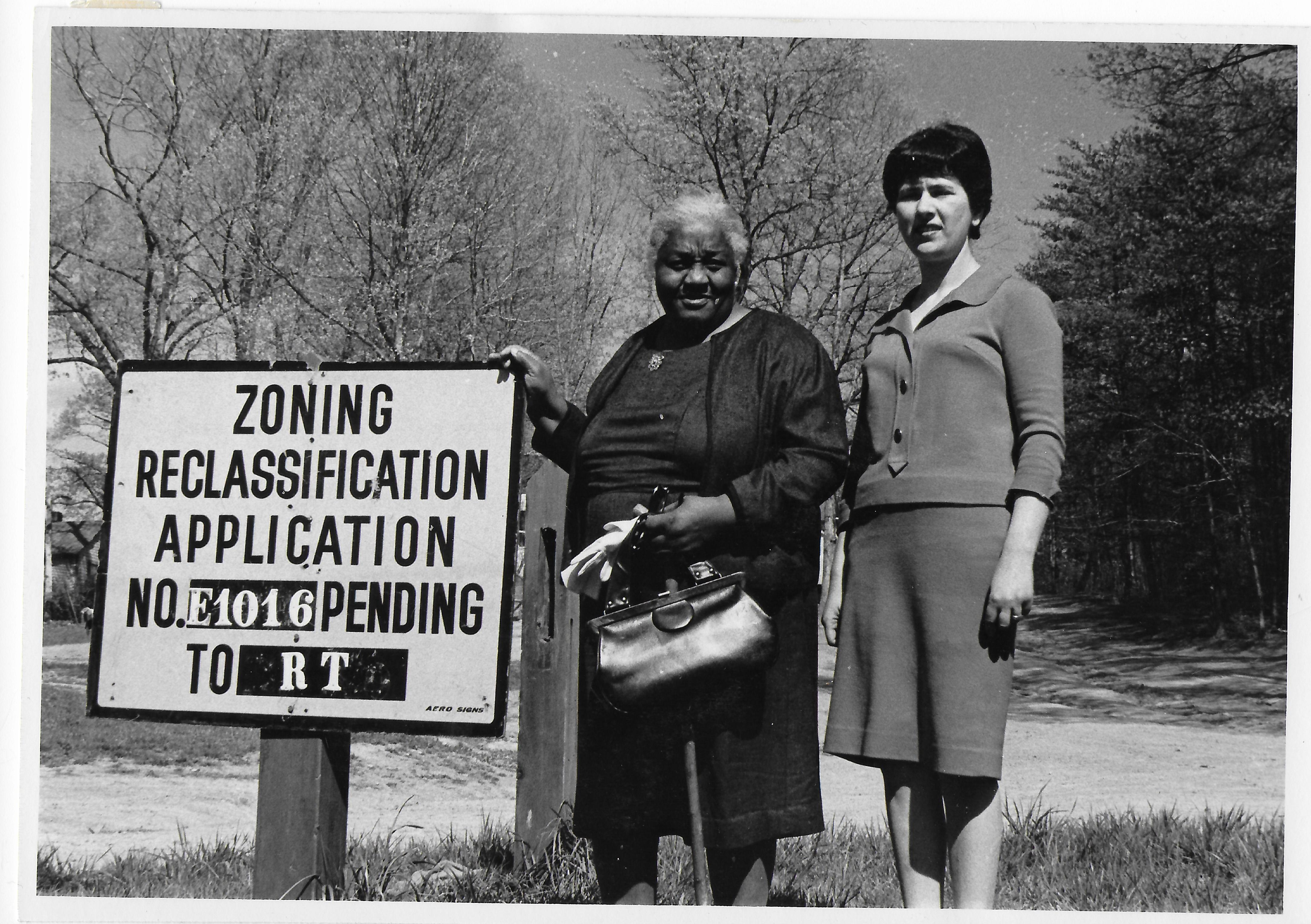 This is a photo from the Scotland Development Corporation's effort to "Save Our Scotland" in the 1960s. The two women were key leaders in the effort. Geneva Mason (L) was a leader within the Scotland community. Joyce Siegel (R) was instrumental in creating and driving external support for the Scotland community. The photo was taken by Alan R. Siegel and is courtesy of the Montgomery History (the Montgomery County Historical Society). It is within the Joyce Siegel papers